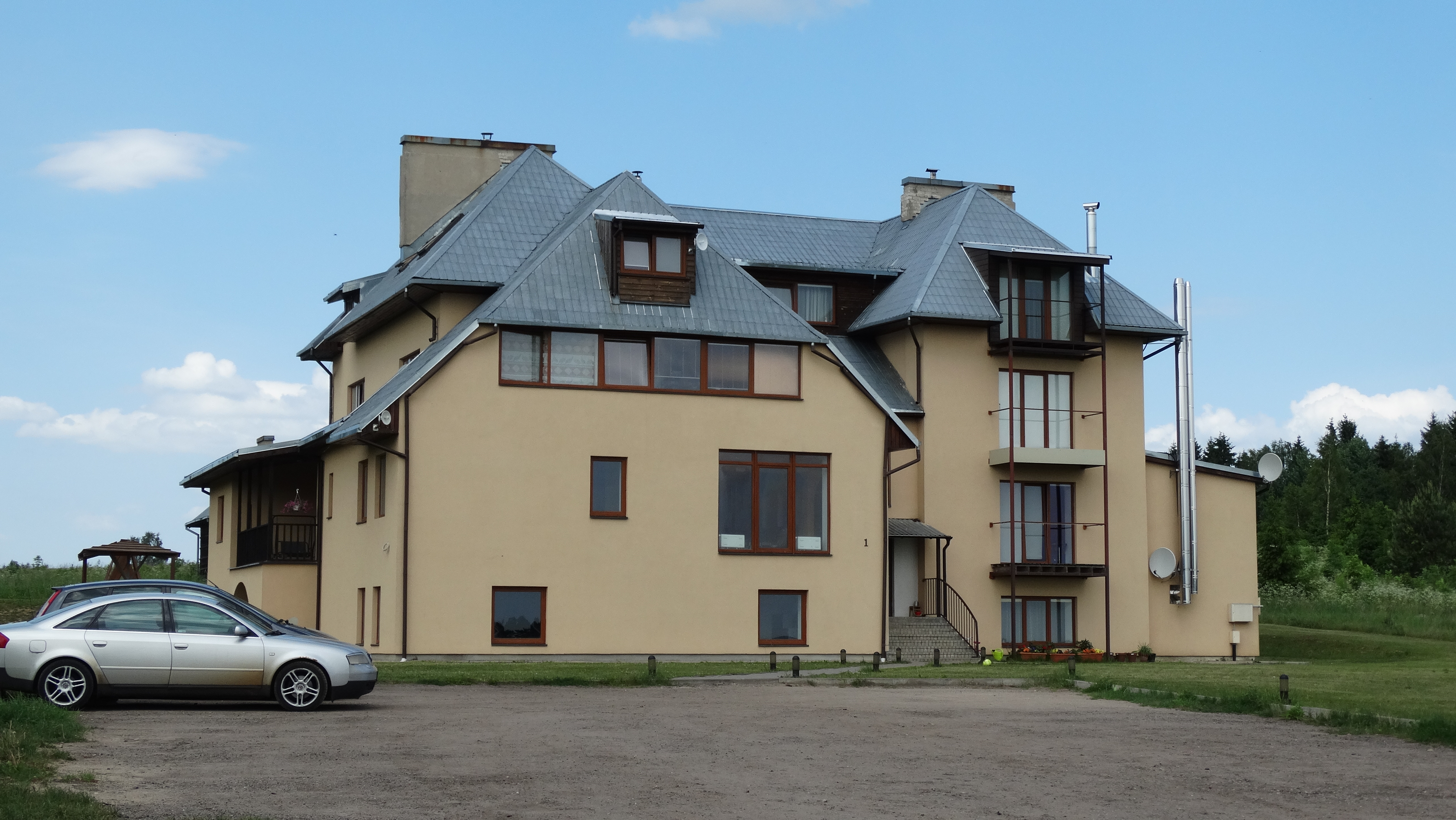 Bareikiškės, Vilnius District, Lithuania